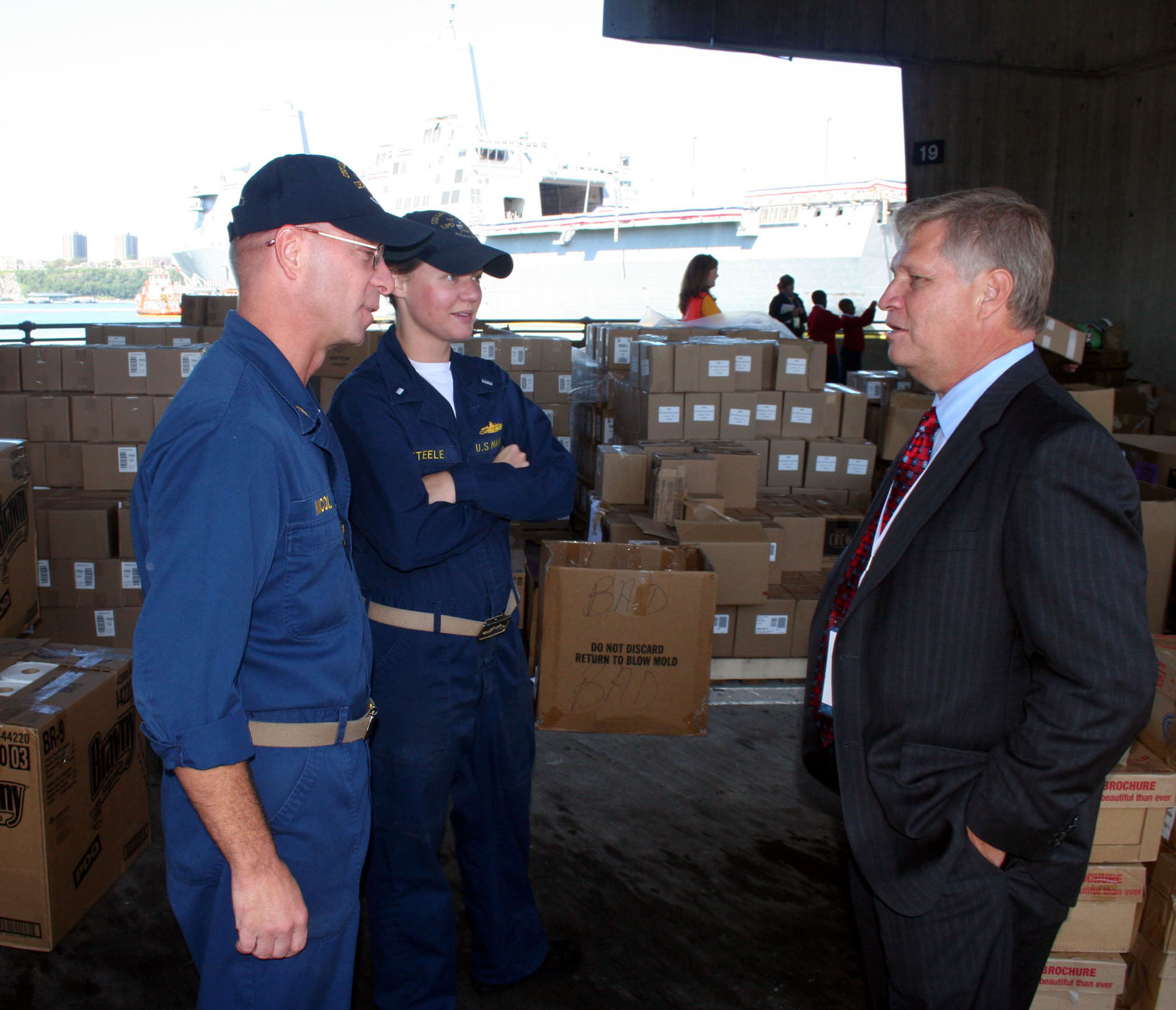 Chief Engineering Officer Lt. Cmdr. Bill Nicol and ship’s Navigator, Lt. j.g. Abigail Steele assigned to USS San Antonio (LPD 17) talks with Chris Mortenson, ESPN, NFL insider during his recent visit to the ship. San Antonio and her crew are in New York to commemorate those who lost their lives, five years ago during the Sept. 11, 2001 terrorist attacks on New York, the Pentagon and Shanksville, Pa.